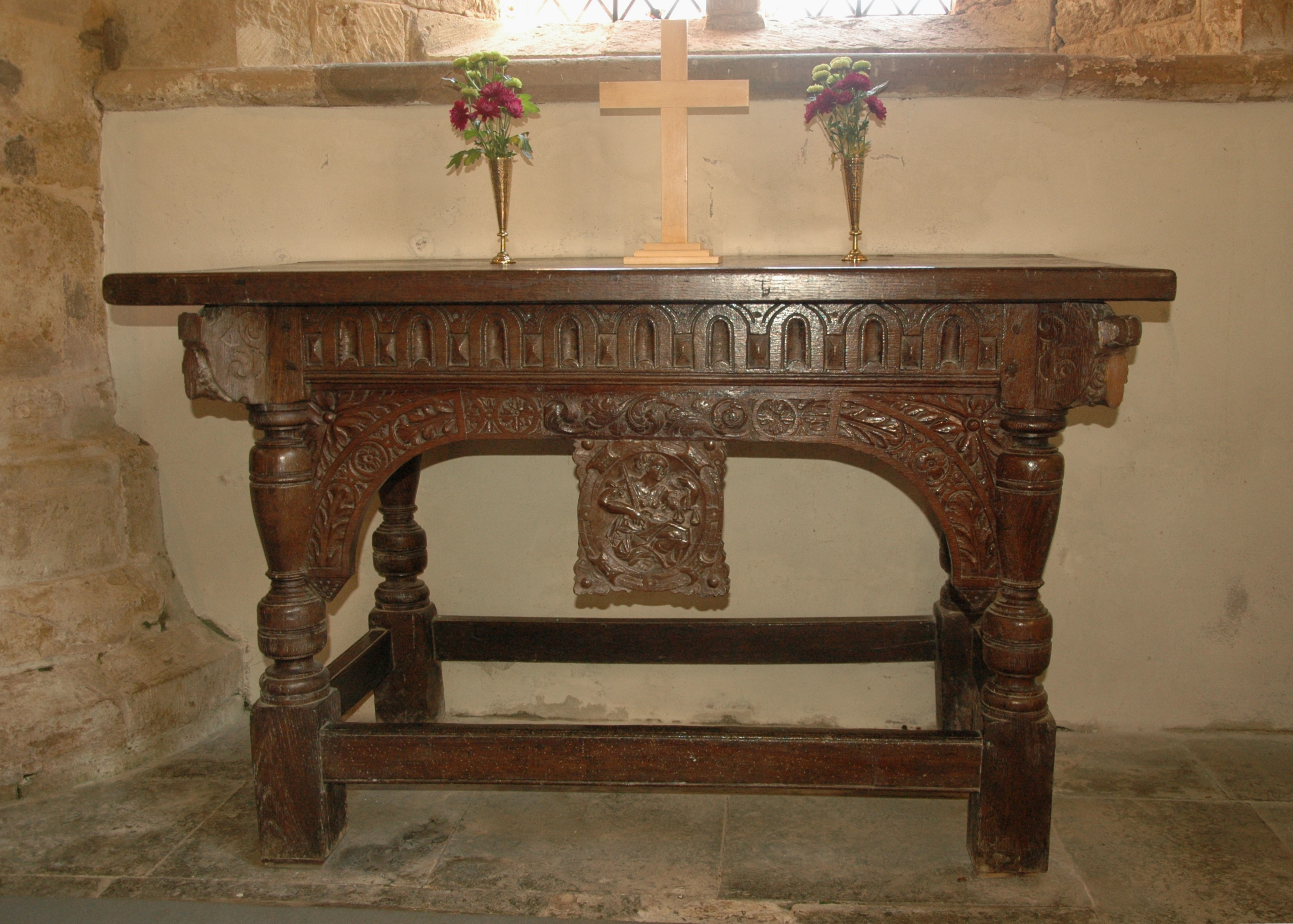 Church of England parish church of St Laurence, Shotteswell, Warwickshire: 17th-century communion table in south aisle